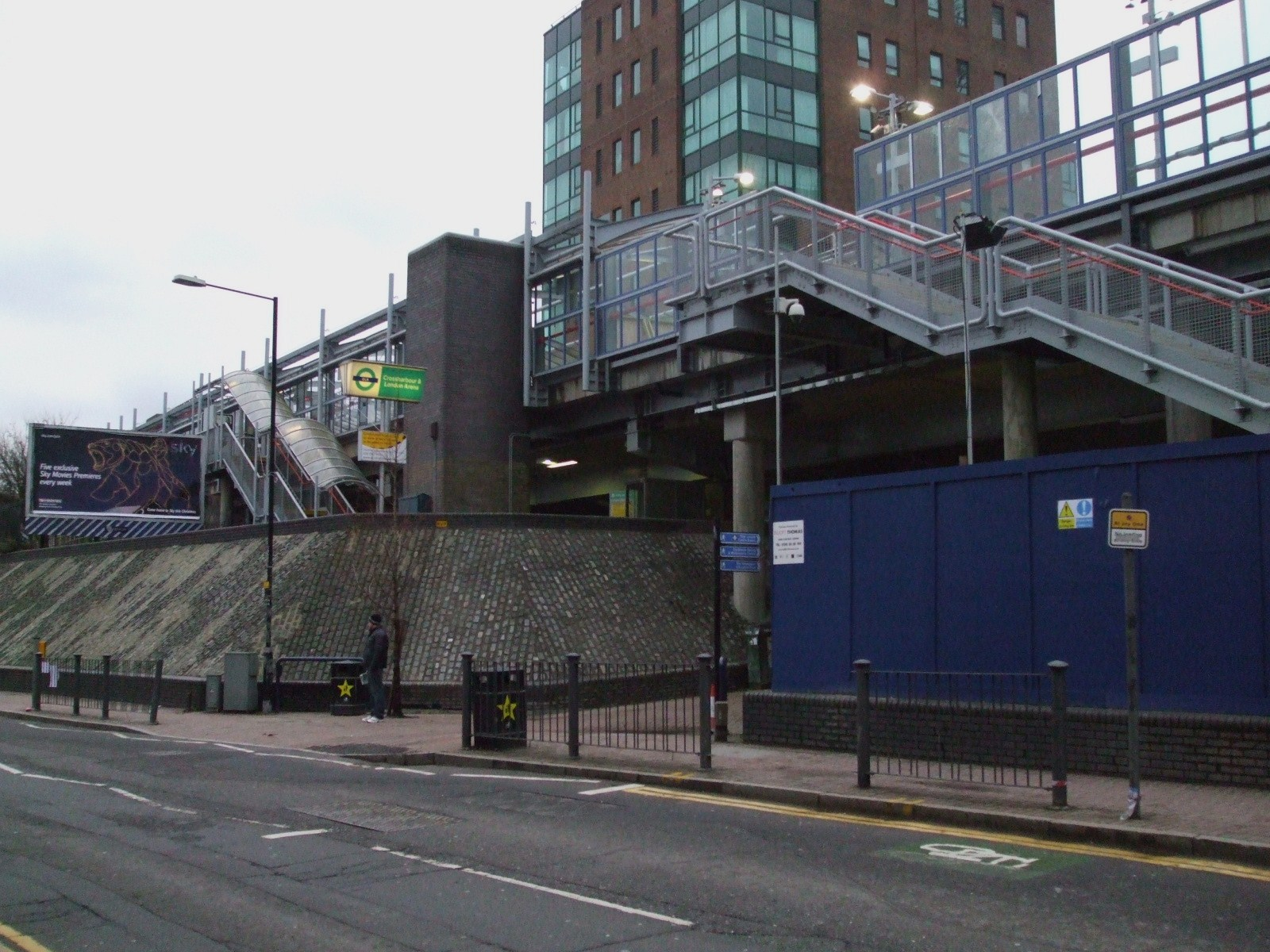 Crossharbour DLR station entrance looking east. Note old sign saying "and London Arena". The Arena has been demolished in recent years.